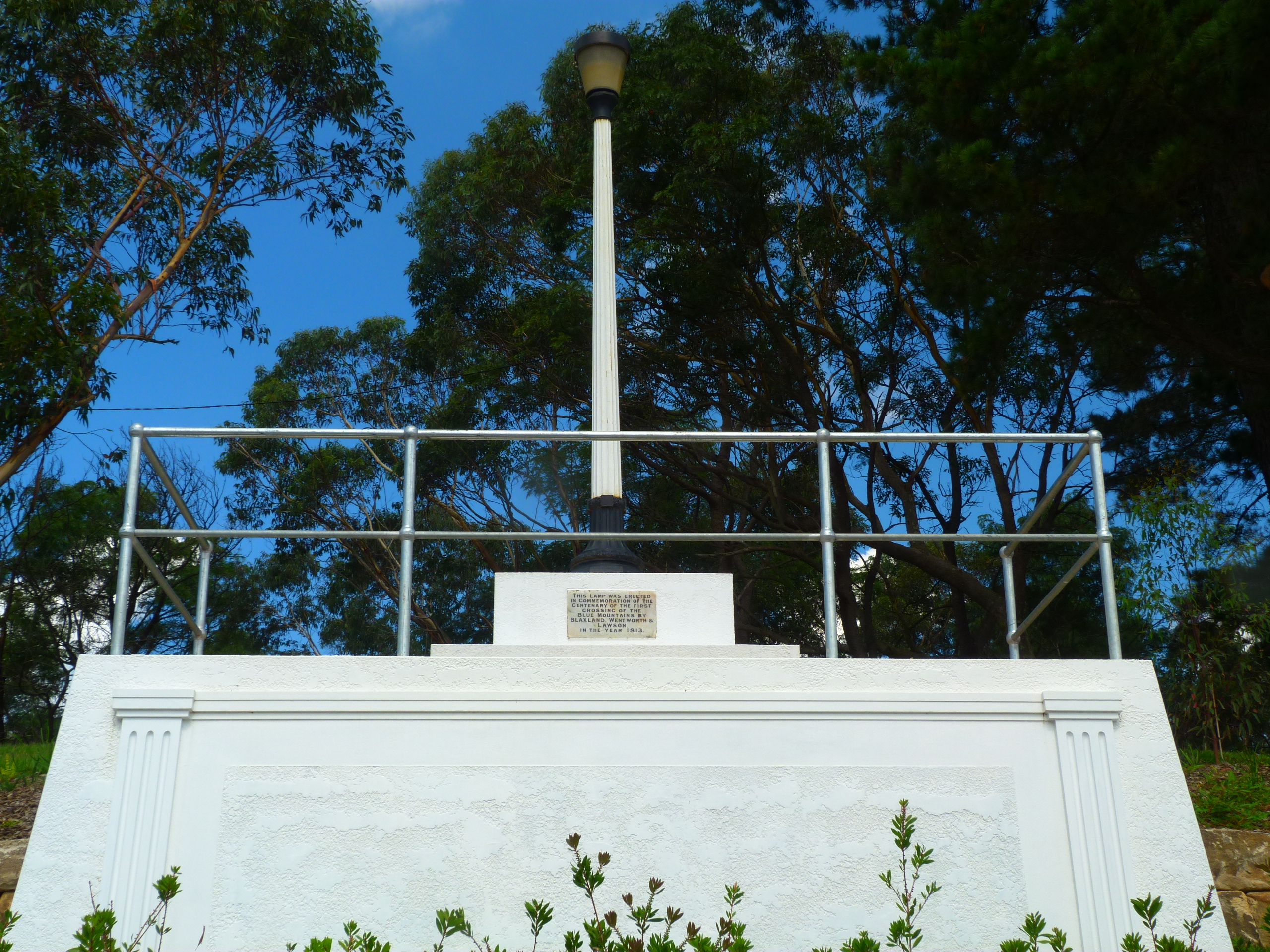 memorial, Lawson, Australia